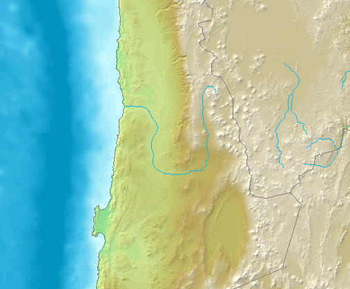 Relief map with Río Loa, Chile